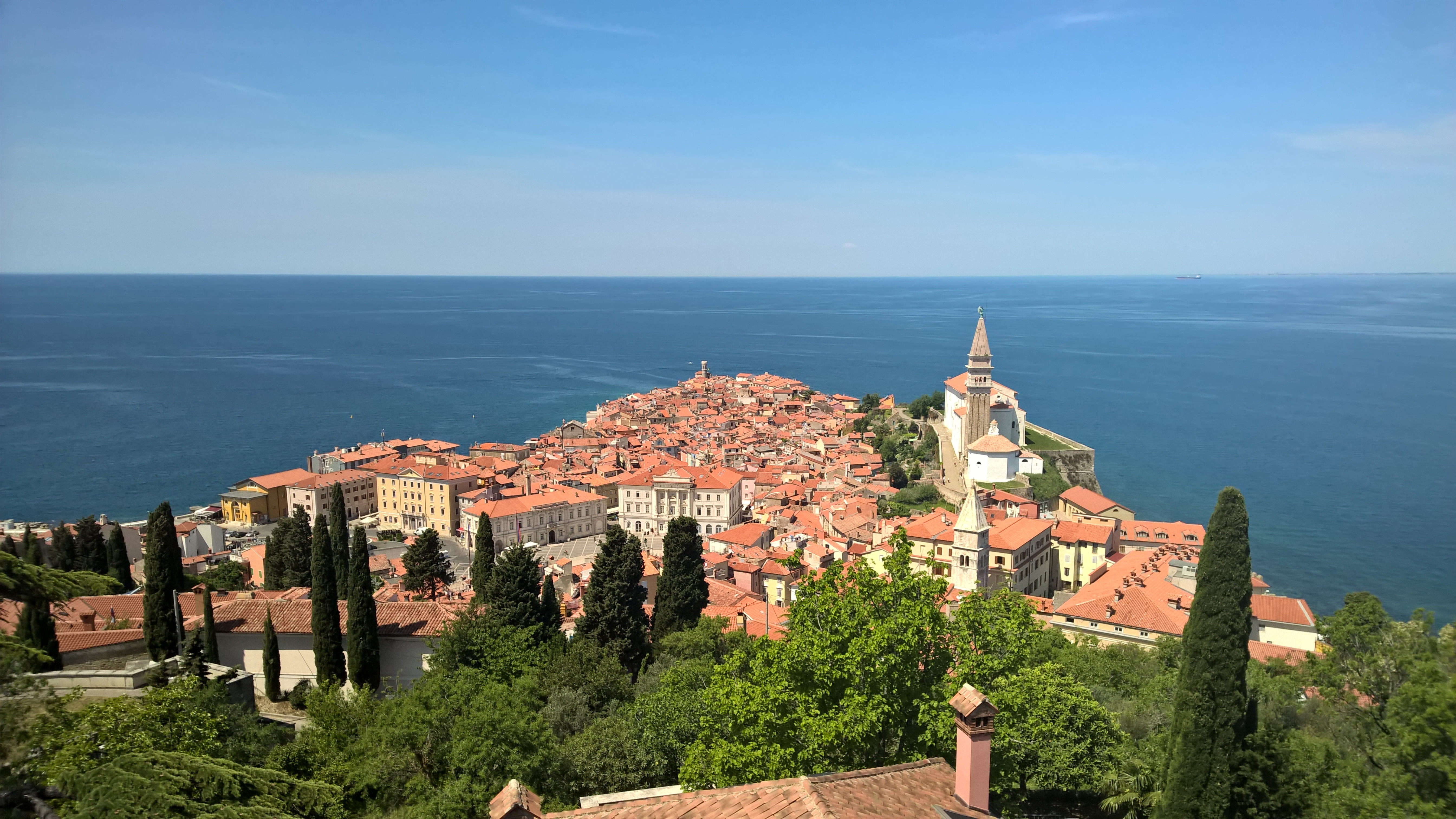 Panoramics of Piran.